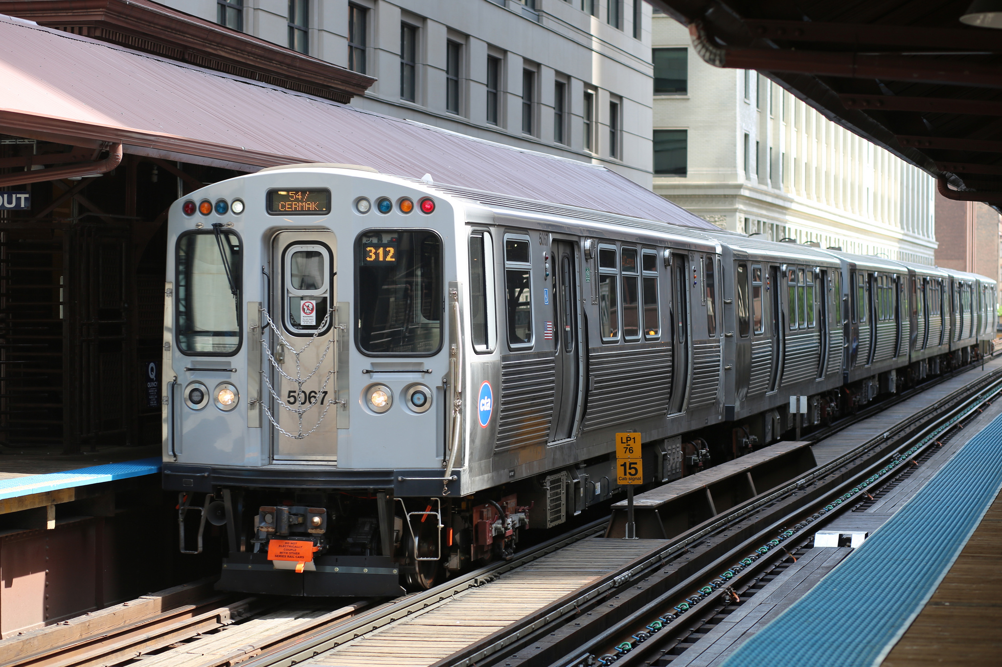 Northbound CTA Pink Line train at Quincy & Wells on Memorial Day 2012.